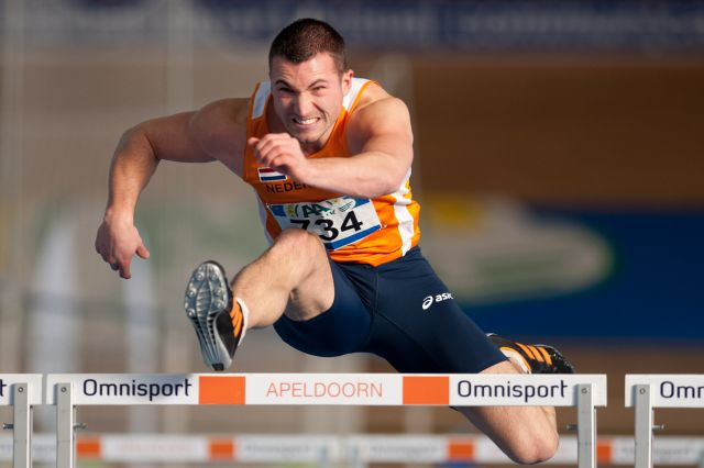 Bob Altena during an indoor meeting in 2010, Apeldoorn, the Netherlands